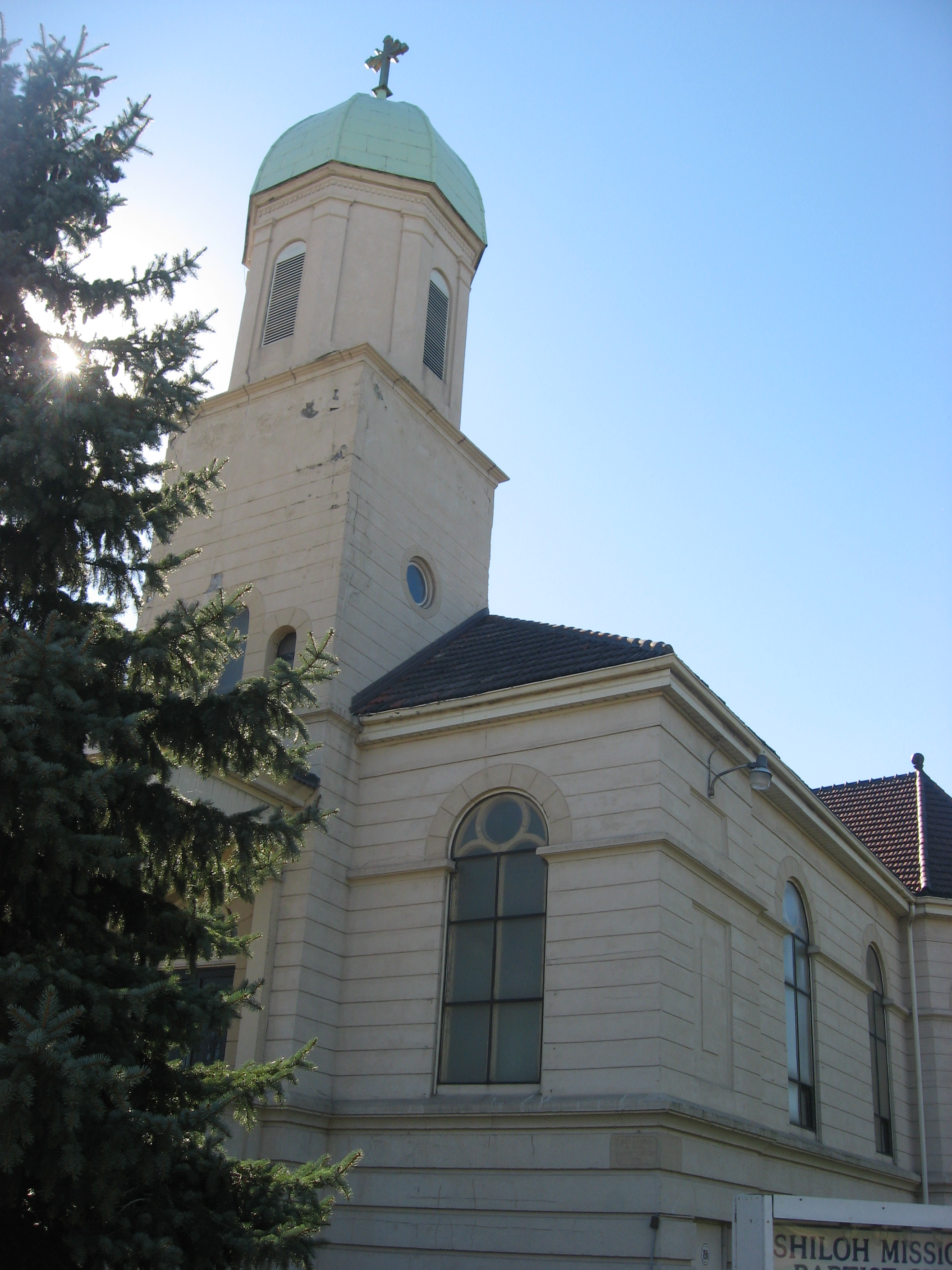 Front and northern side of the former St. Ladislaus' Catholic Church (now Shiloh Missionary Baptist Church), located at 2908 Wood Avenue in Lorain, Ohio, United States. Built in 1904, it is listed on the National Register of Historic Places.